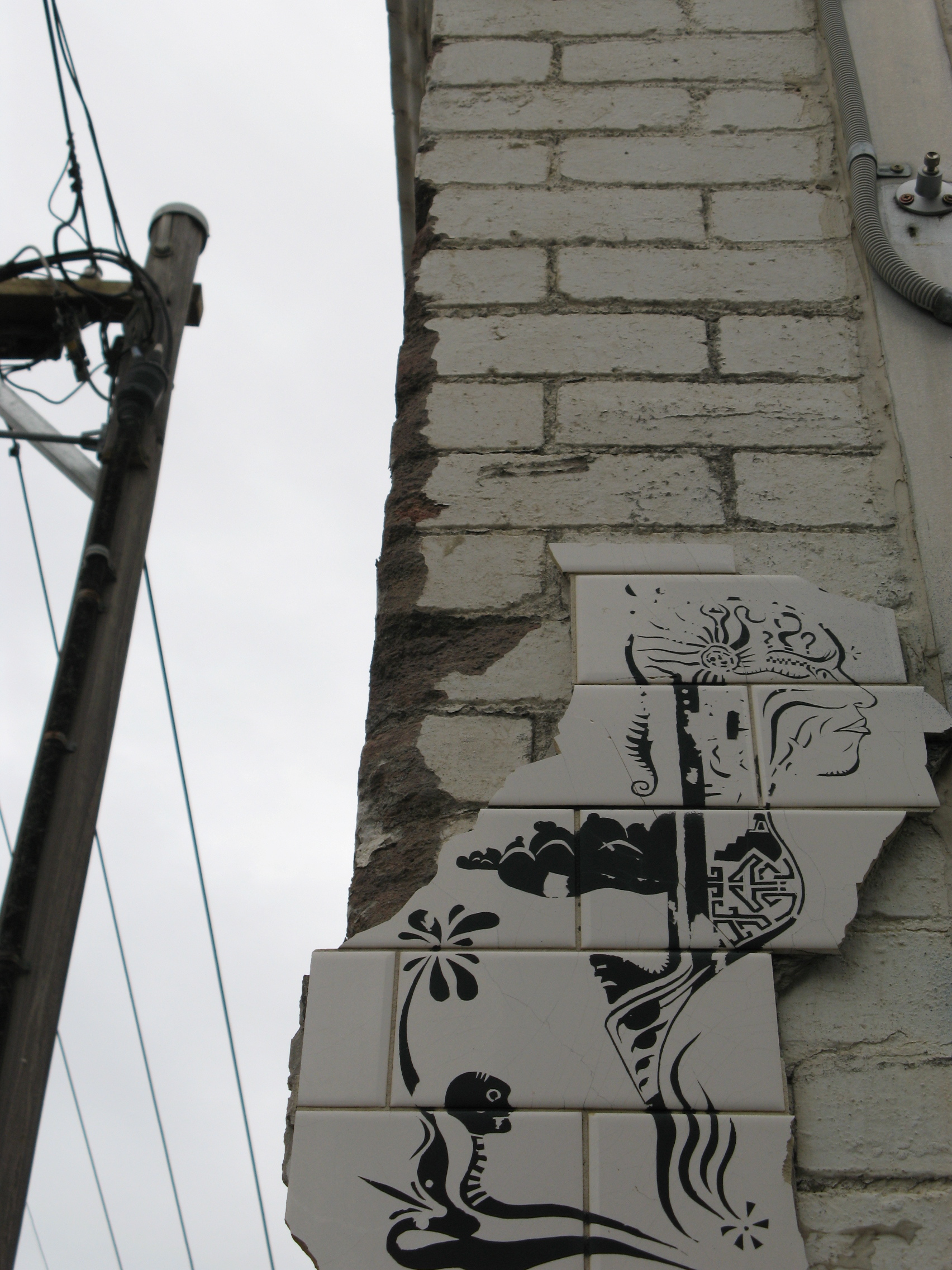 Ceramic street art in Melbourne, on the corner of a building in Fitzroy. Photo taken by myself in 2008. Artist? Do you know who's work this is? Let us know. Nick carson (talk) 02:10, 10 December 2008 (UTC)